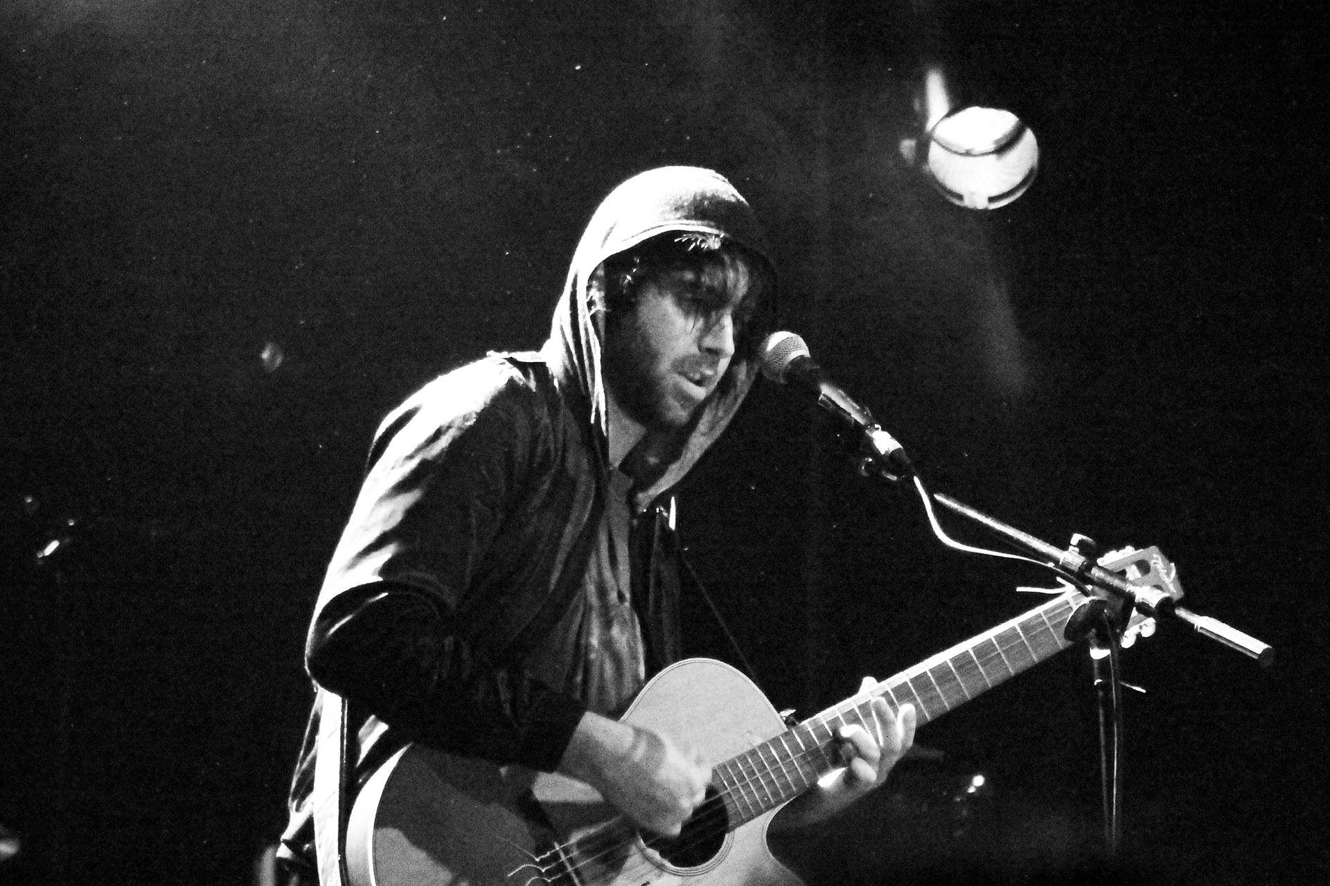 Stuck In The Sound en concert au Confort Moderne - Poitiers, mars 2012. Pour écouter l'album Pursuit. from Flickr album "Le Confort Moderne" by Xi WEG from Poitiers, France